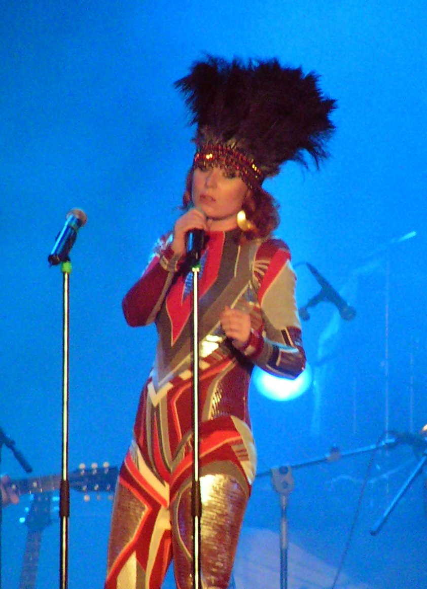 Róisín Murphy at the Orange Music Experience Festival in Haifa, Israel